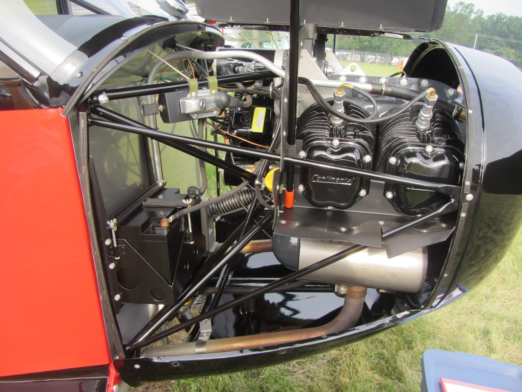 FunkB-85-C